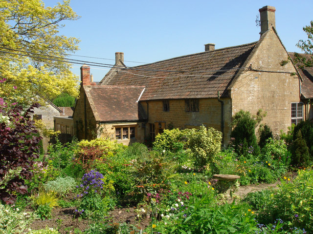 East Lambrook Manor Gardens East Lambrook Manor Gardens were designed and planted by Margery Fish in 1937, around her 15th century cottage home.